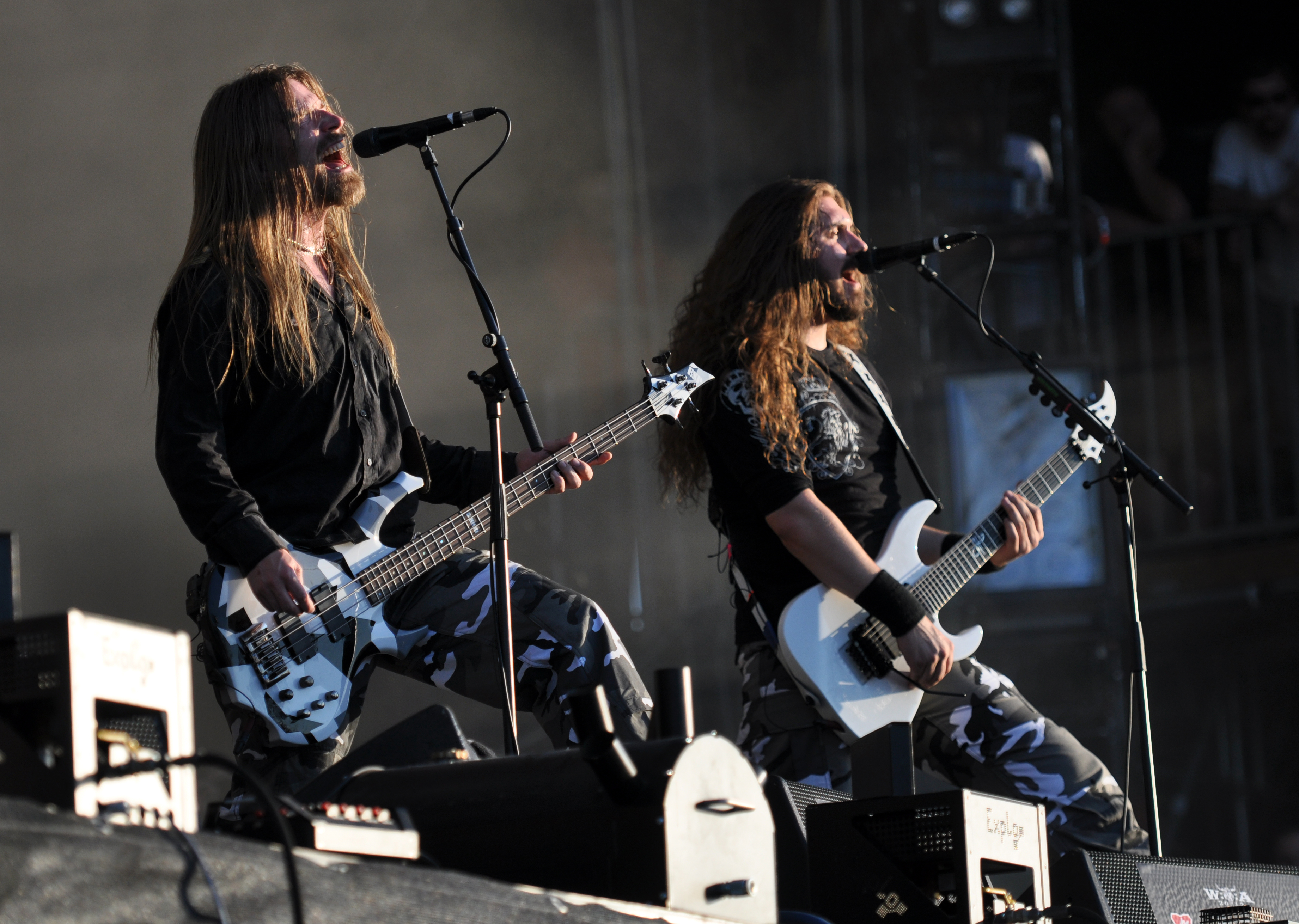 Sabaton at Wacken Open Air 2013